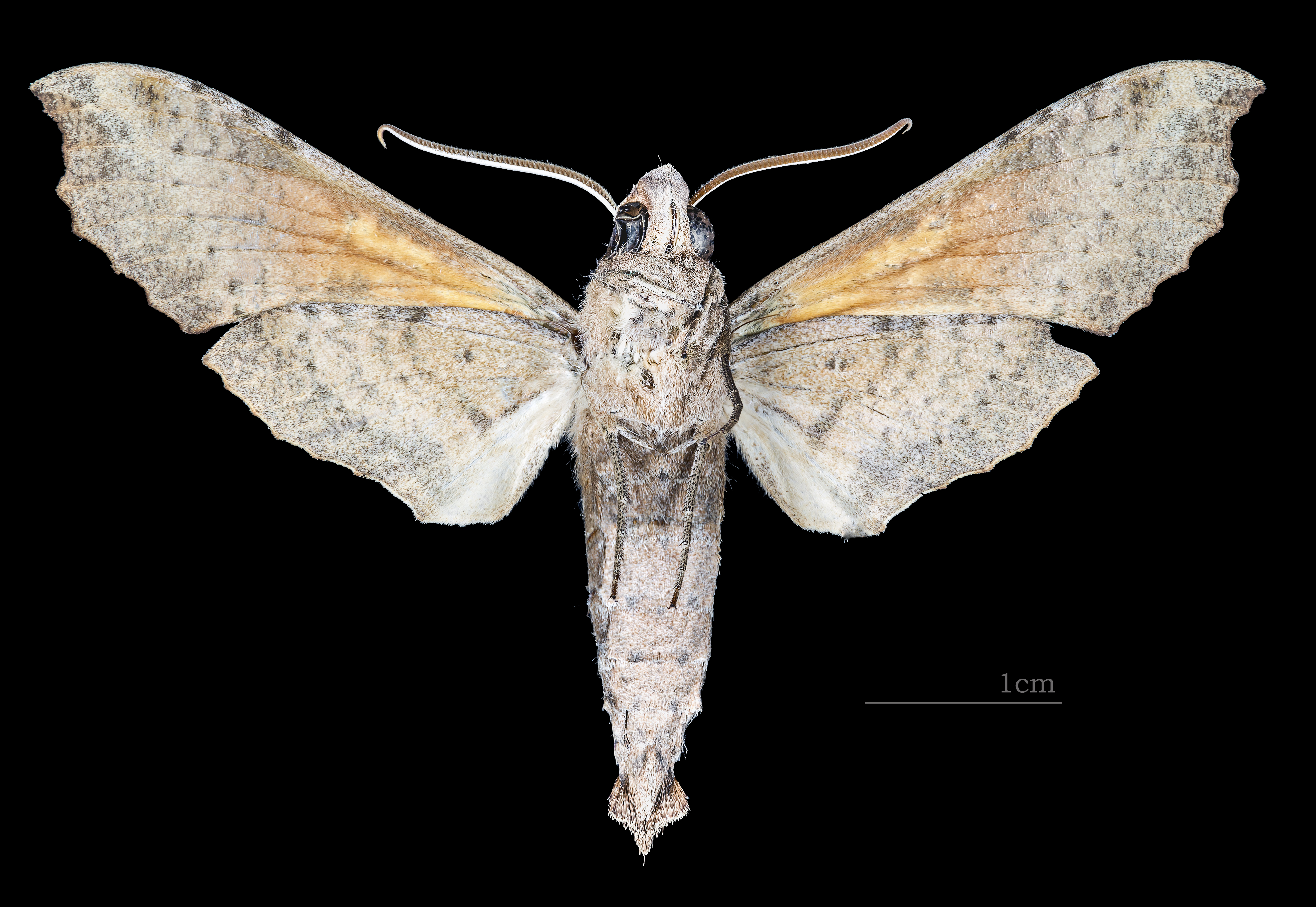 Callionima calliomenae - △ Ventral side Collection of the Mathematician Laurent Schwartz